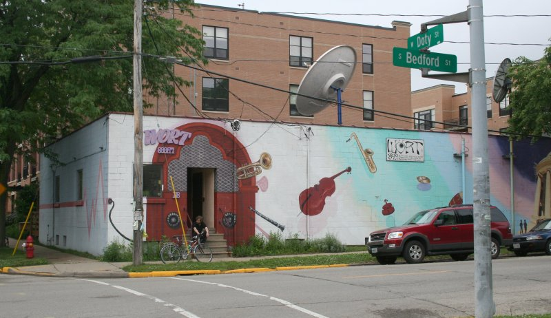 The exterior of the WORT studios in Madison, Wisconsin, USA